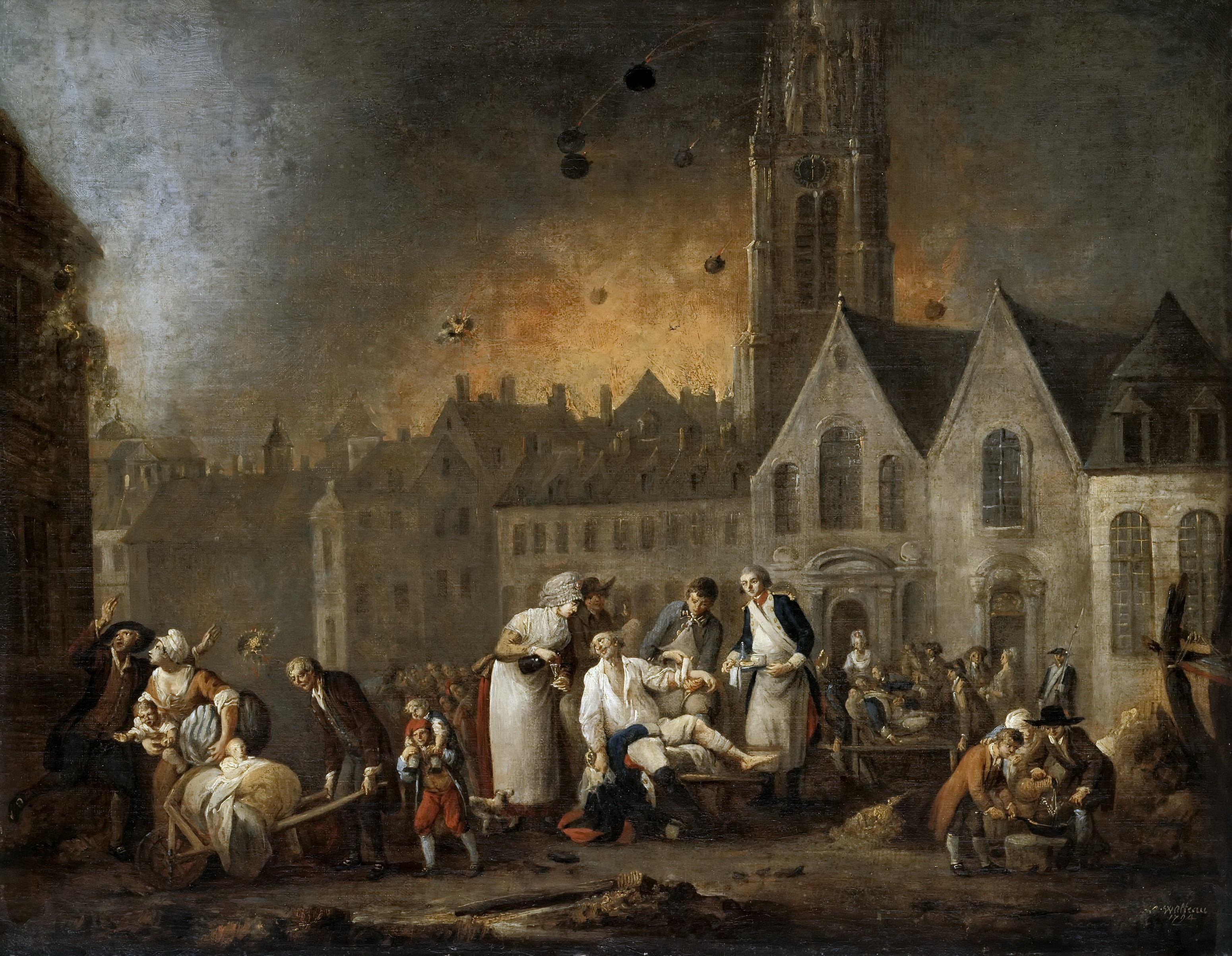 The siege of Lille in 1792 by the Austrian army. The shelling of the quarter Saint-Sauveur. The unsuccessful siege by the Austrian troops of the French fortress of Lille from September 24 to October 8, 1792 during the war of the first coalition.